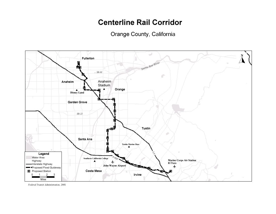 Map of proposed CenterLine light rail line that would have served Orange County, California